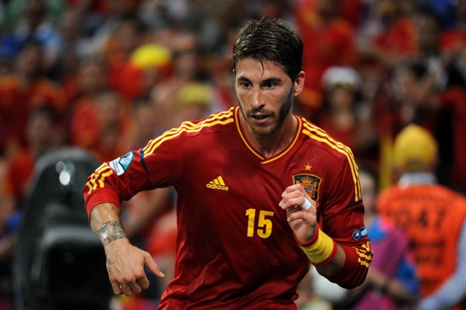 Sergio Ramos at Euro 2012 match Spain-France